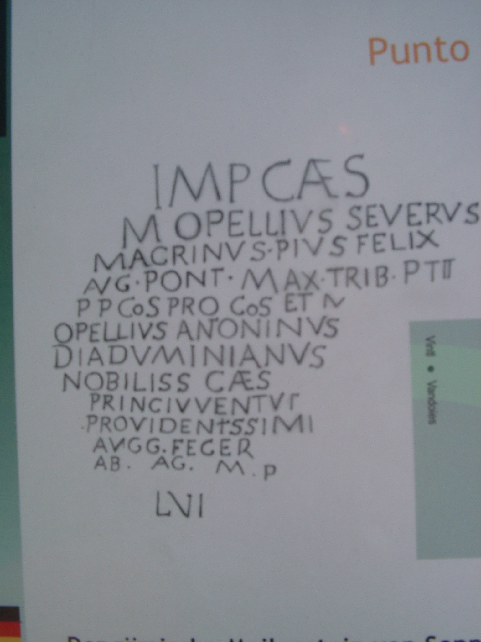 Transcription of an inscription of Roman mile stone in St. Lorenzen. CIL III, 5708 (p 1847) = CIL XVII, 169 = ILLPRON 01575 = D 00464 = AEA 2005, +00050